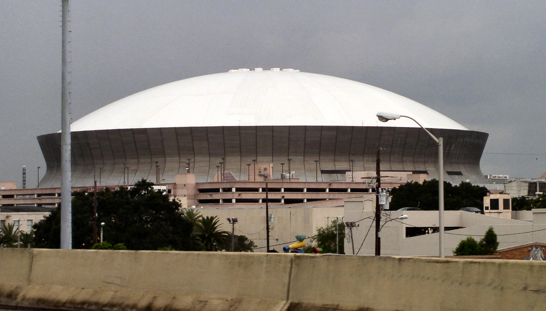 Picture of Louisiana Superdome, by Rafal Konieczny, 2004.07.01.